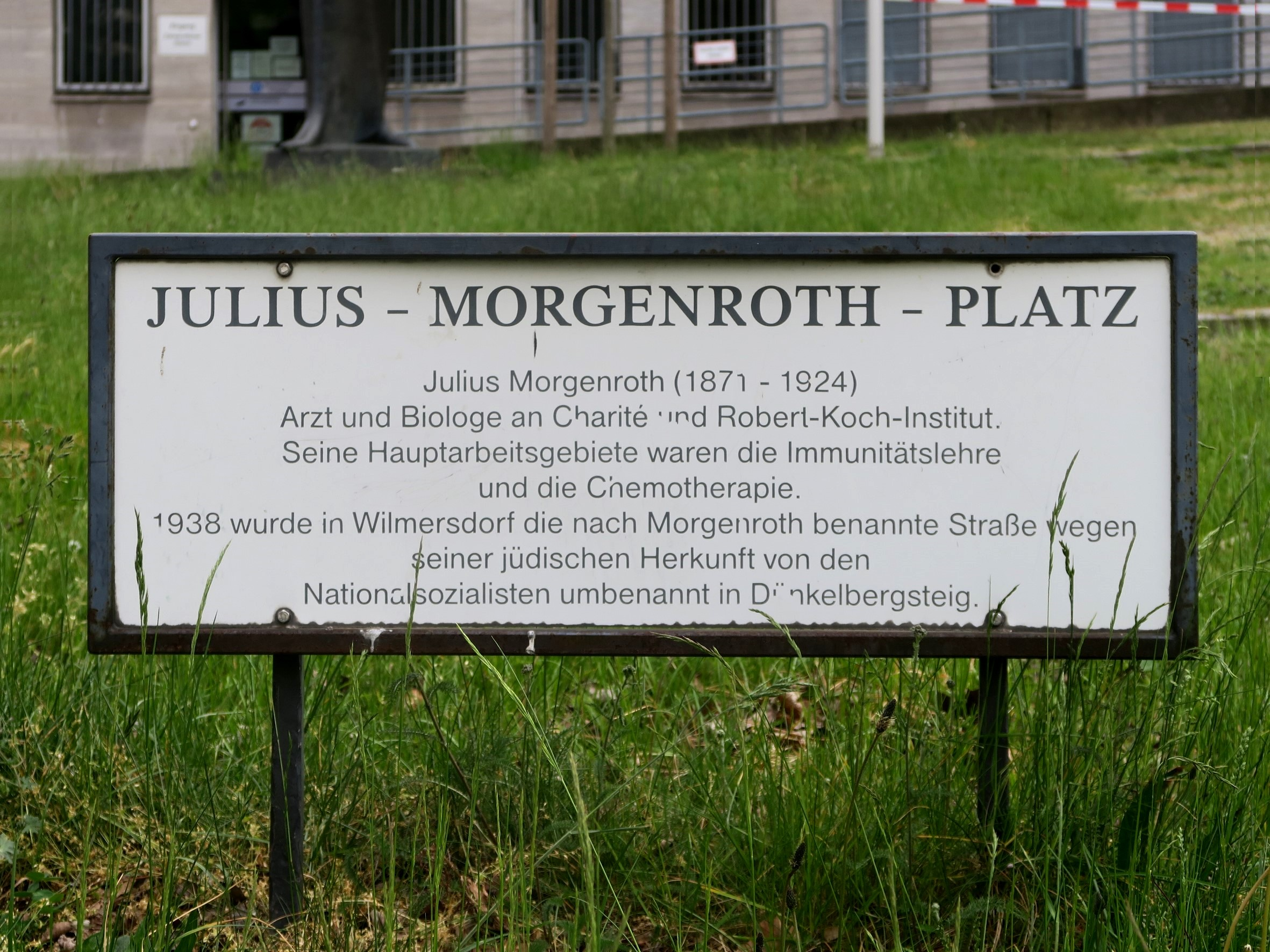 Place in Berlin to commemorate Julius Morgenroth, German medical doctor